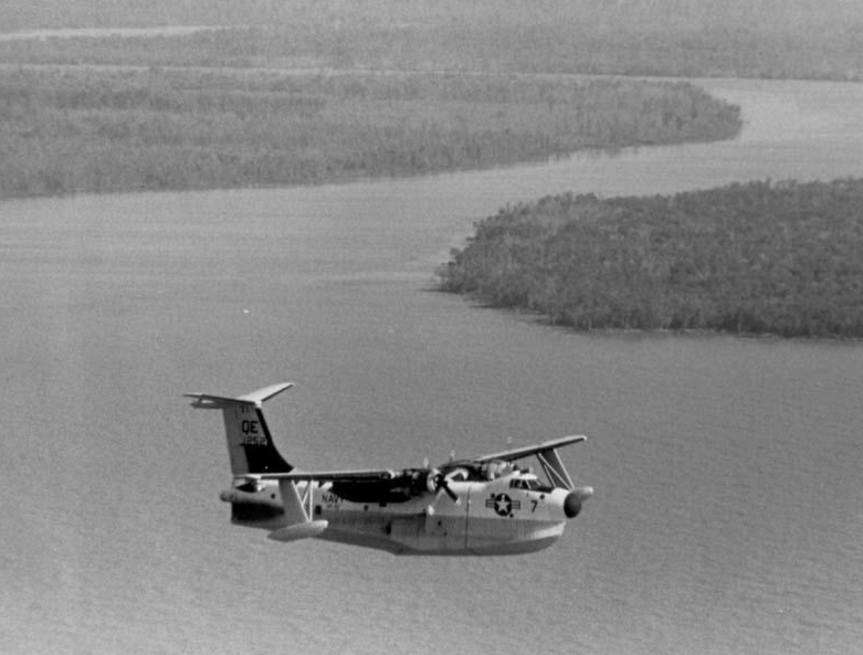 A U.S. Navy Martin SP-5B Marlin (BuNo 151252) from Patrol Squadron VP-40 Fighting Marlins flies low along the coastline of South Vietnam during a wartime patrol in August 1965.